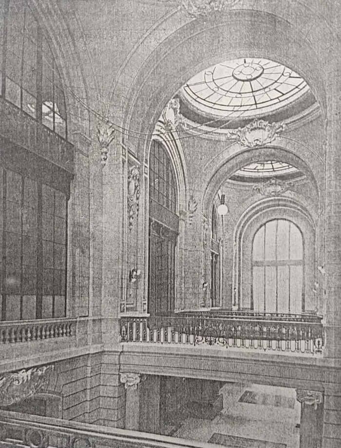 Imagen Antigua de la fachada realizada por los arquitectos originales